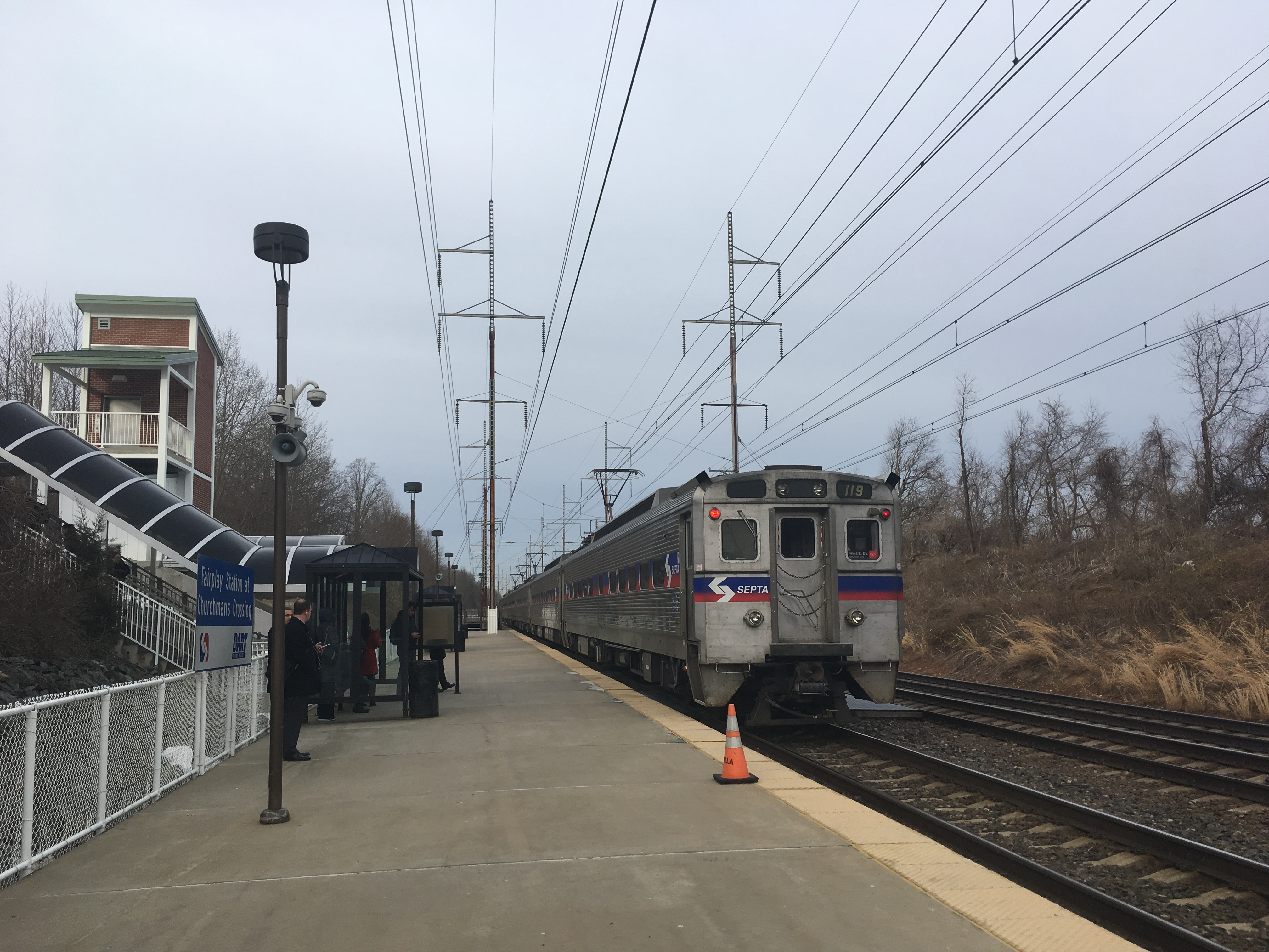 A SEPTA Wilmington/Newark Line train bound for Newark leaves the Churchmans Crossing station near Christiana, Delaware